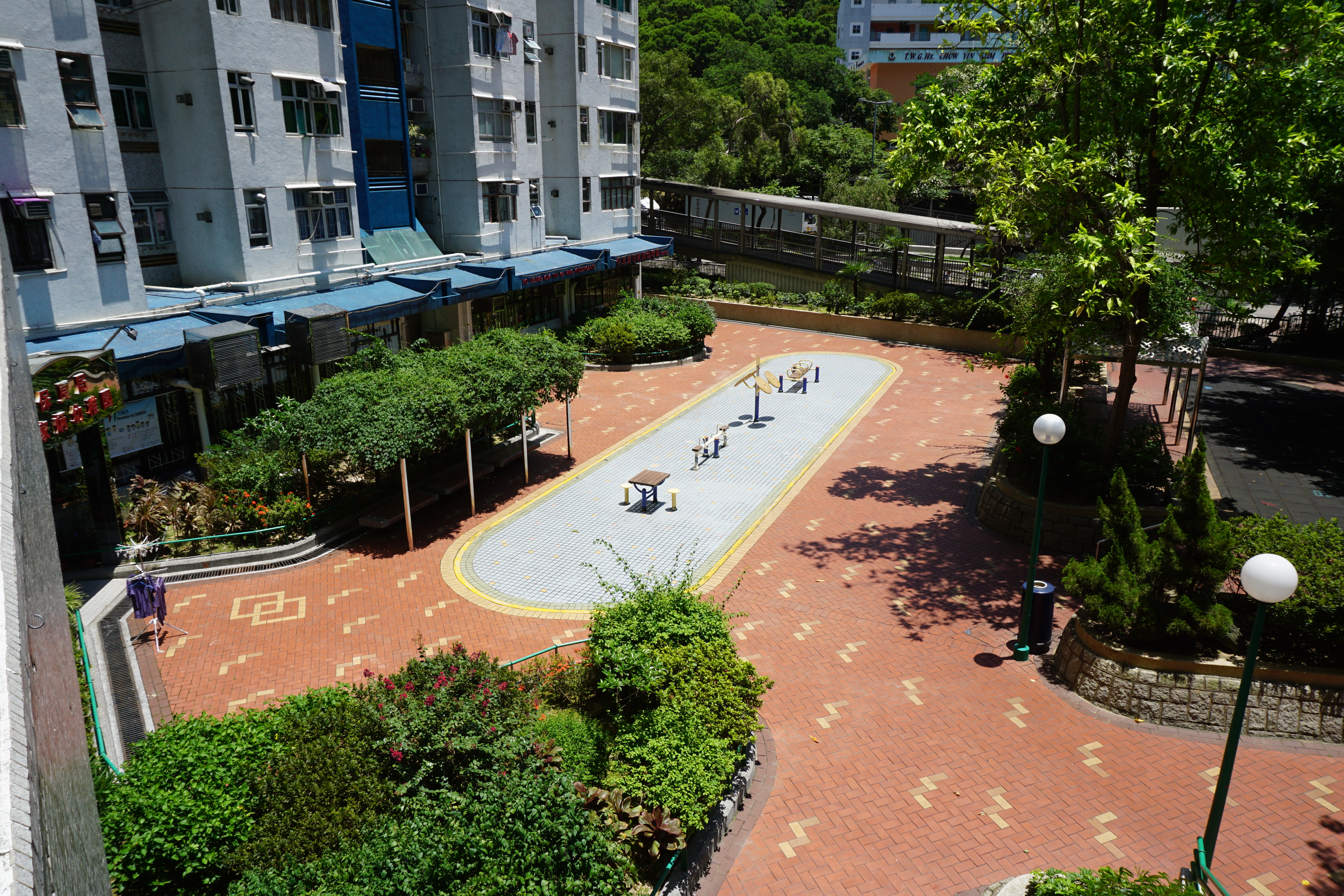 Ching Shing Court in Tsing Yi, Hong Kong.